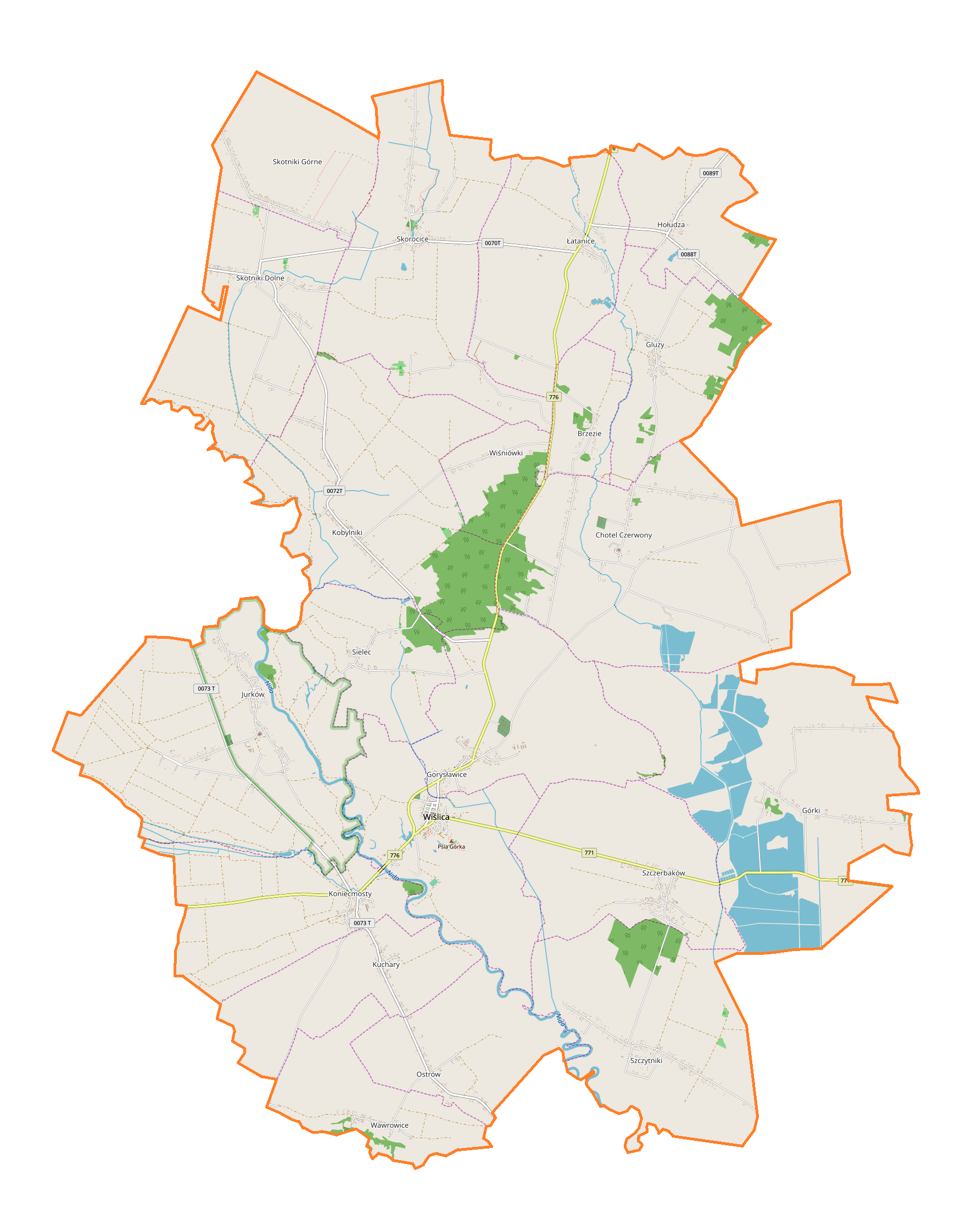 Location map